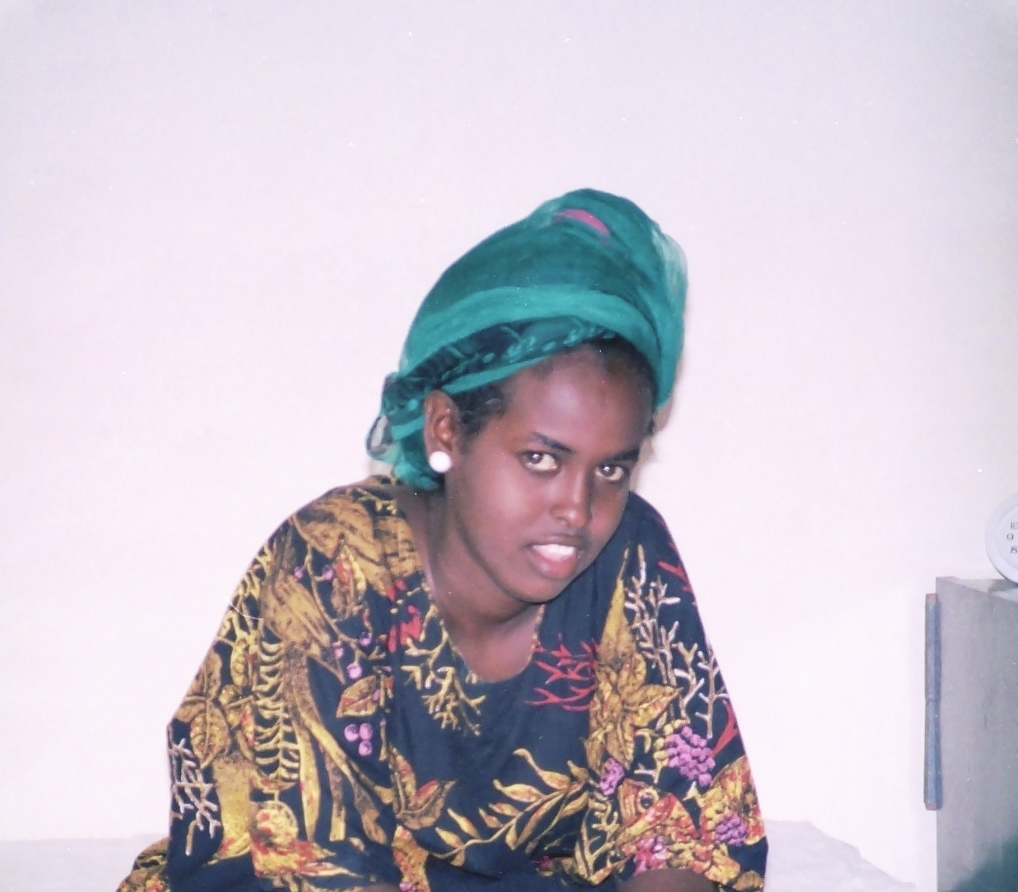 Young Somali woman in Mogadishu